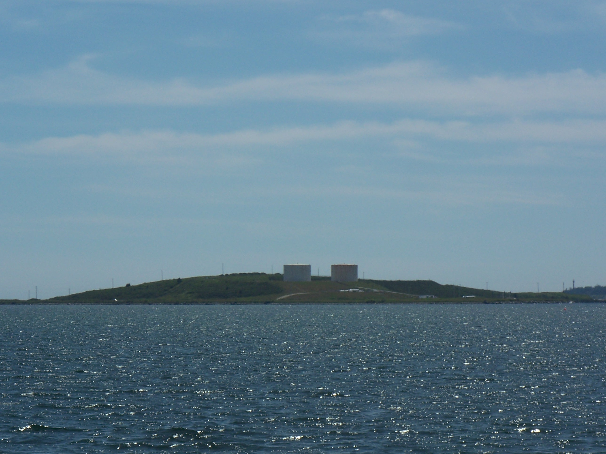 A photo of Bunker's Island in Yarmouth